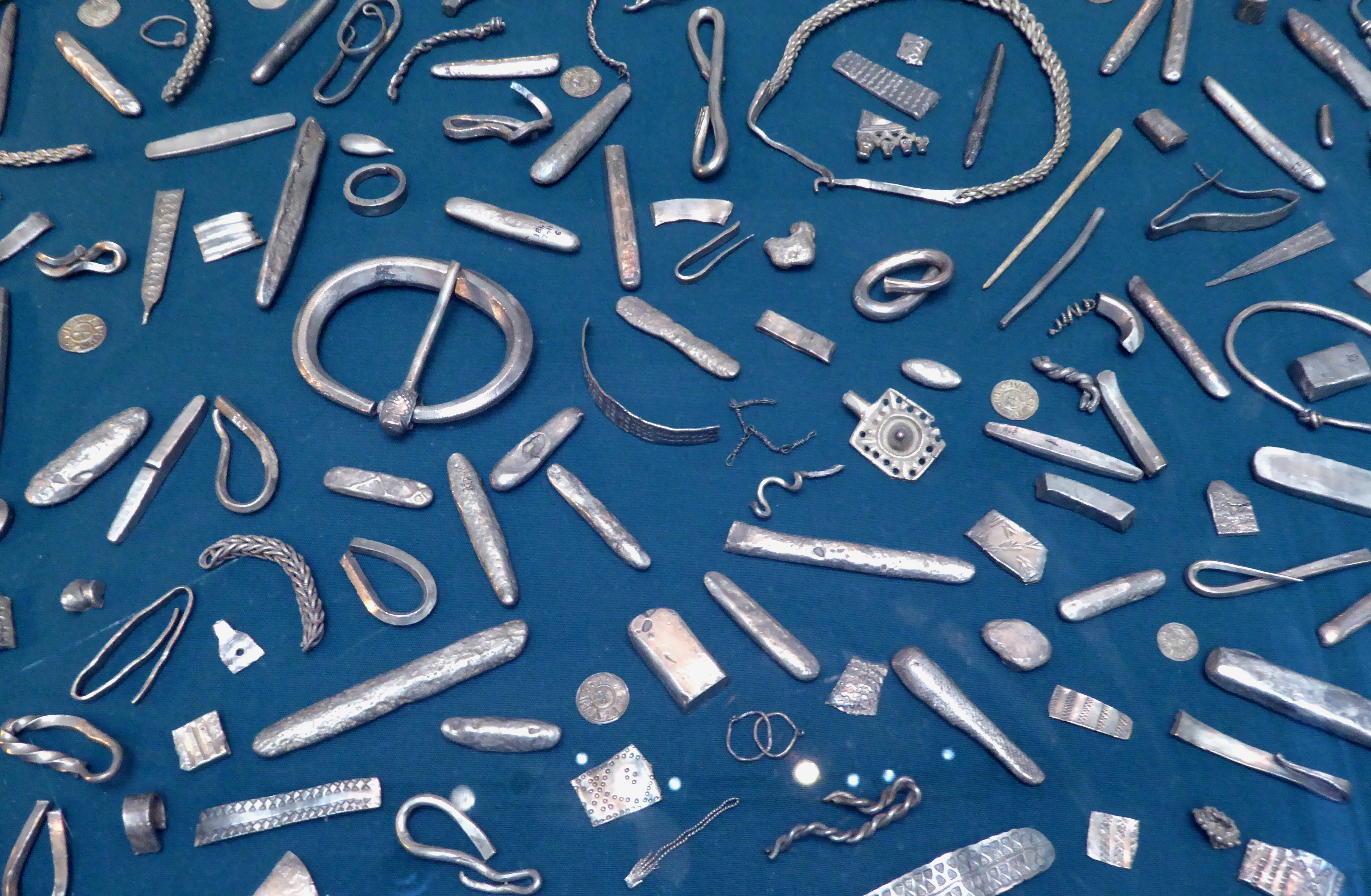 Artefacts from the Cuerdale Hoard in the British Museum.